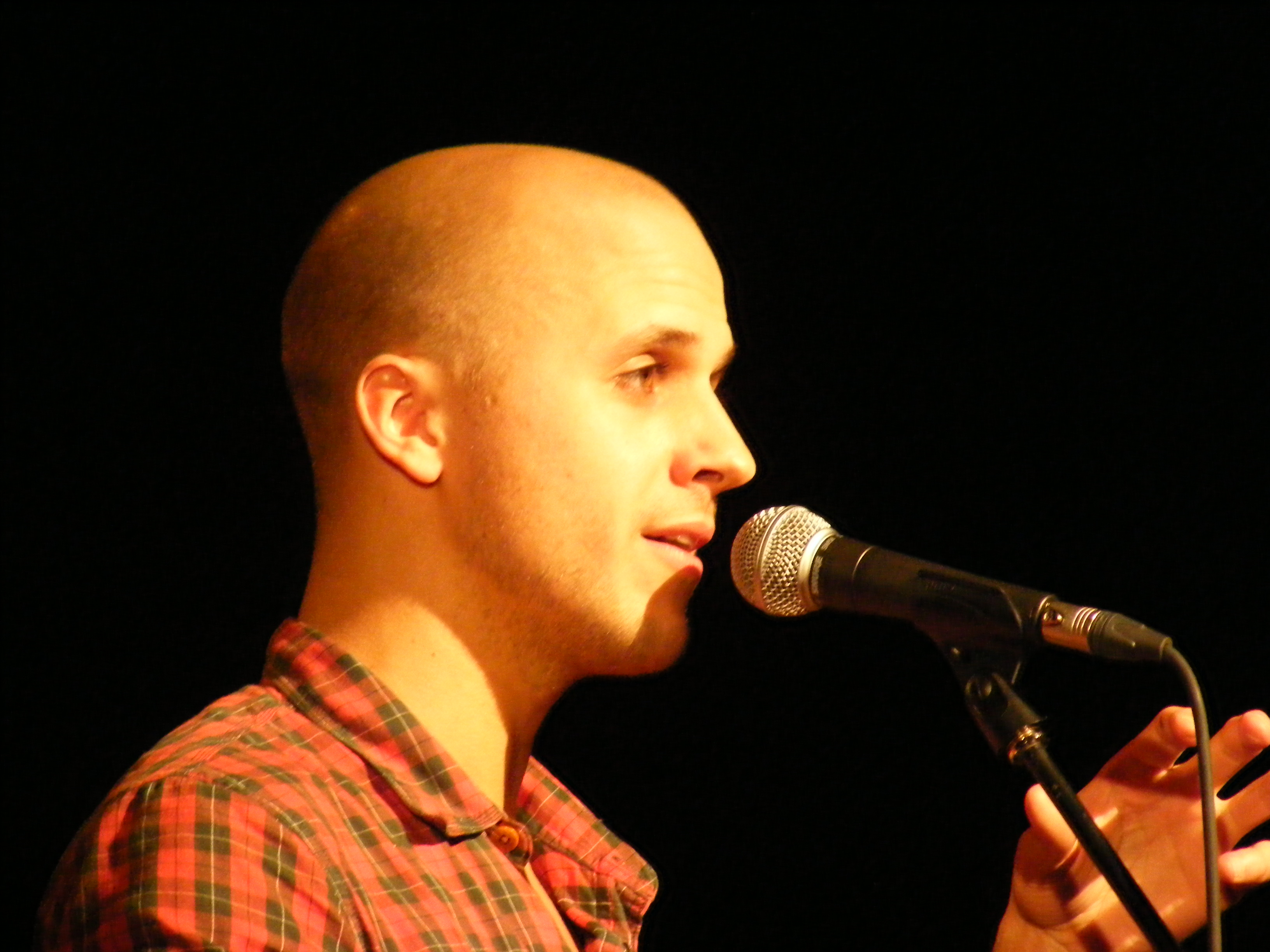 Montreal March 15, 2010 Milow concert.